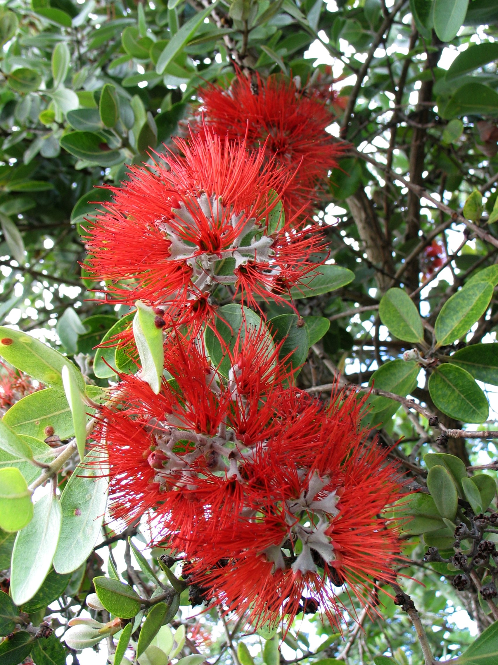 Metrosideros polymorpha ʻŌhiʻa, ʻŌhiʻa lehua, Lehua Myrtaceae Endemic to the Hawaiian Islands Hawaiʻi Island (Cultivated) NPH00033